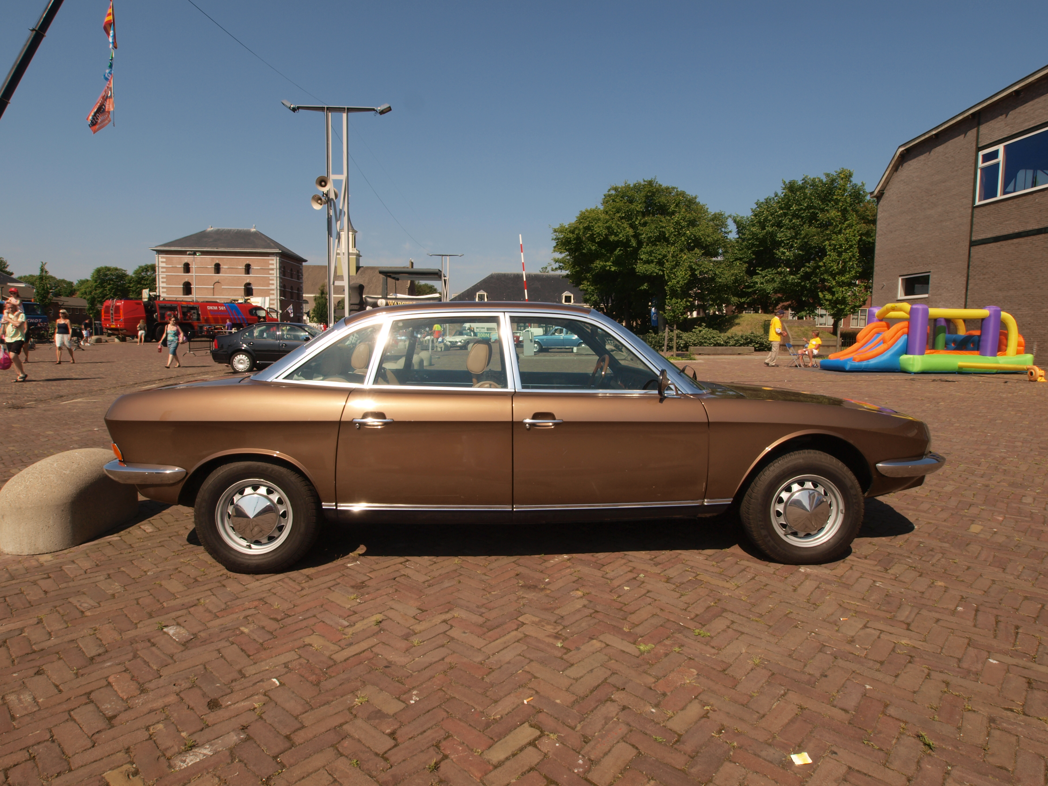 Photographed at Den Helder, The Netherlands. OLYMPUS DIGITAL CAMERA